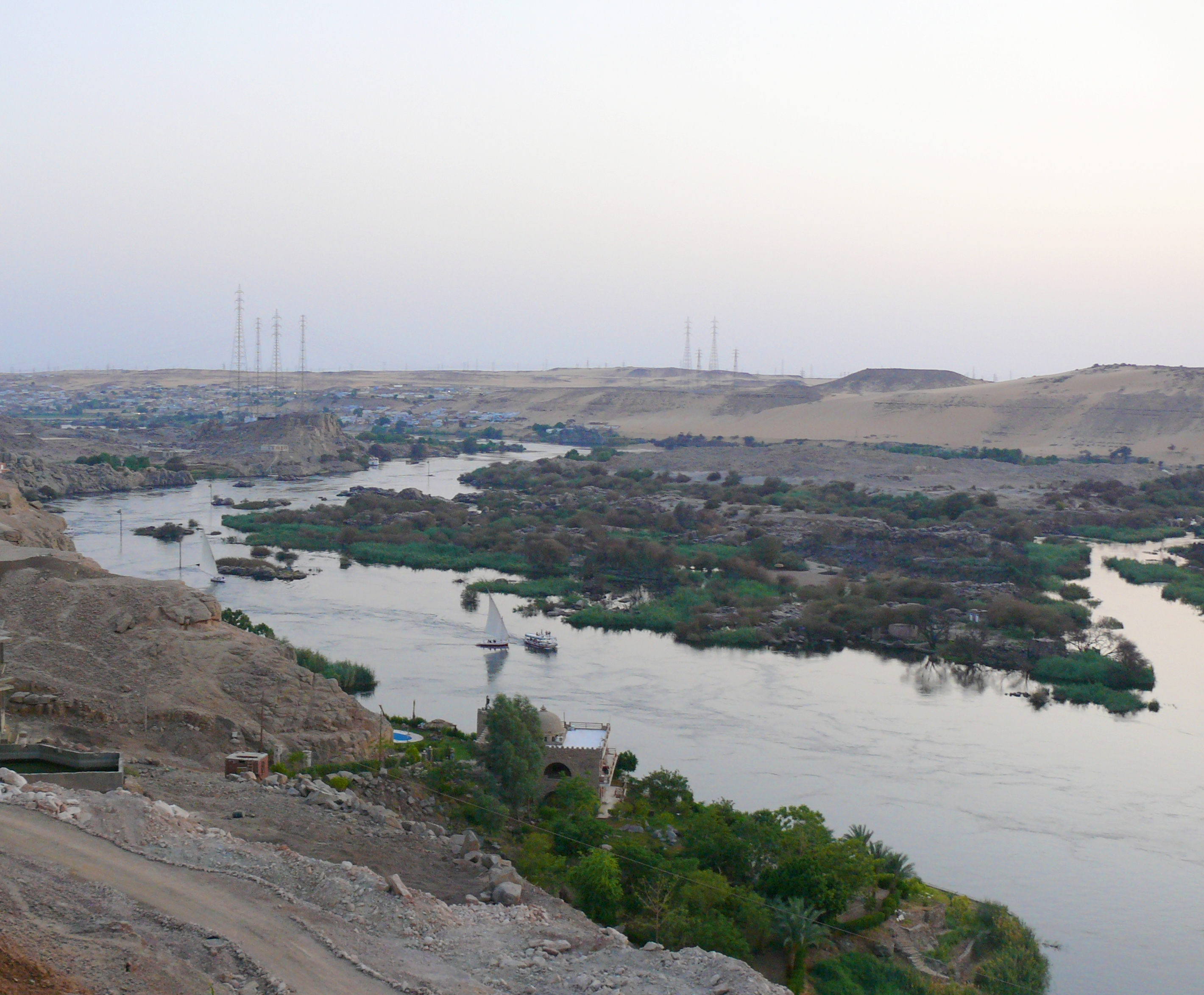 The Nile cataracts at Aswan.